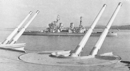 Either HMS Implacable or HMS Indefatigable with HMS Anson in the background - 4.5"/45 (11.4 cm but actual bore is 4.45 inch as with all British 4.5 inch ordnance, or 11.3 cm and this latter one is preferred for metric description) Mark III guns in RP10 Mark II BD (below deck) mountings